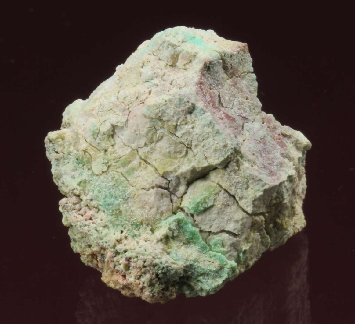 Boothite, variety Mg-bearing Boothite (Cupromagnesite) Locality: Monte Somma, Somma-Vesuvius Complex, Naples Province, Campania, Italy Size: 2.0cm x 2.0cm x 2.0cm Vibrant, green-blue, thin crusts of cupromagnesite displaying a radial fibrous structure hosted on a light colored volcanic rock matrix with desiccation cracks. Eric Asselborn label. Ex. Rock Currier collection. Tom and Melissa Campbell photos. NOTE: According to Mindat, cupromagnesite is a synonym for magnesium-bearing boothite.